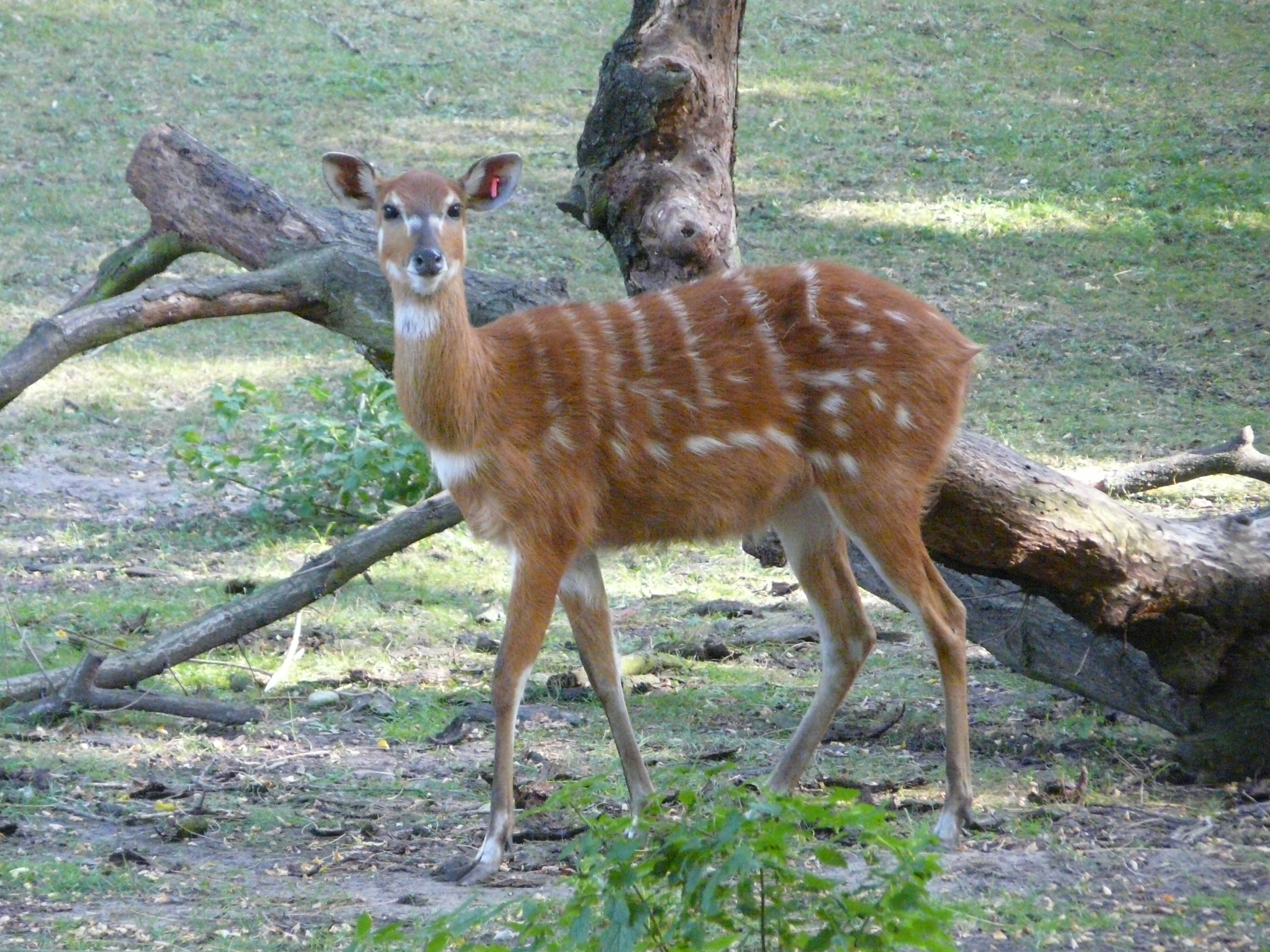 Sitatunga